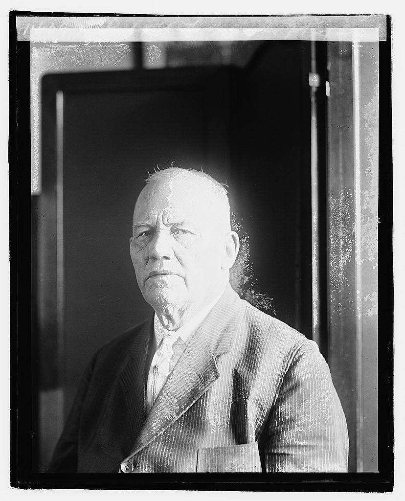 Kentucky Congressman Robert Y. Thomas, Jr.